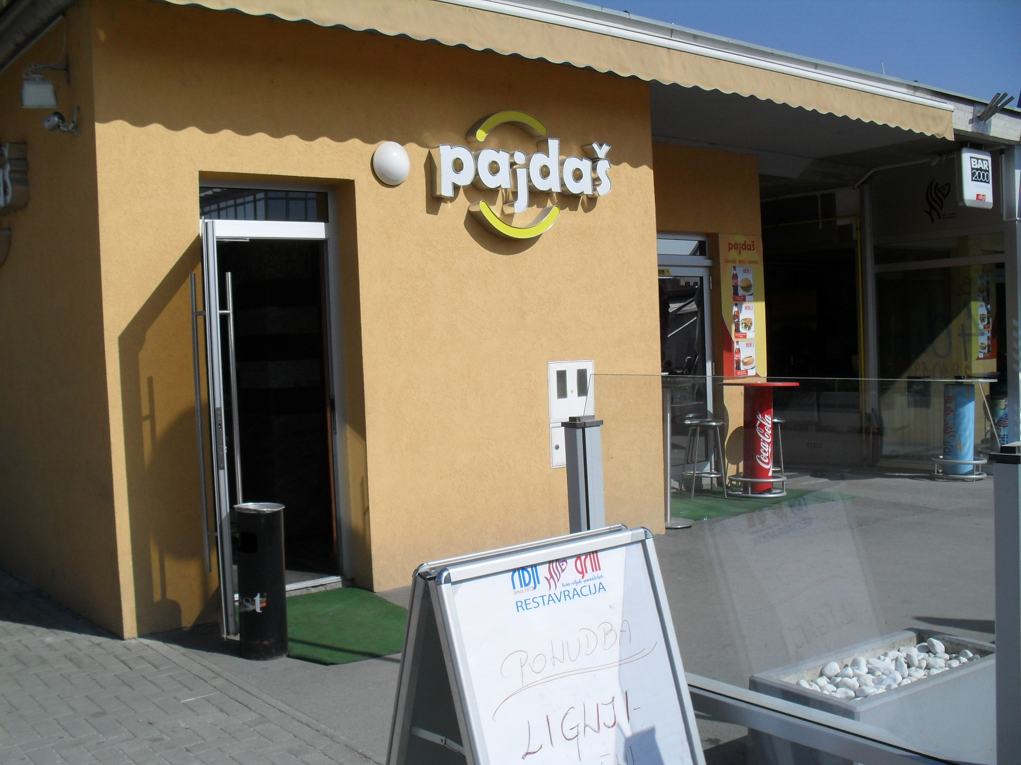 The fast-food restaurant Pajdaš in Murska Sobota. His name in Prekmurian language (prekmurščina) is Buddy.